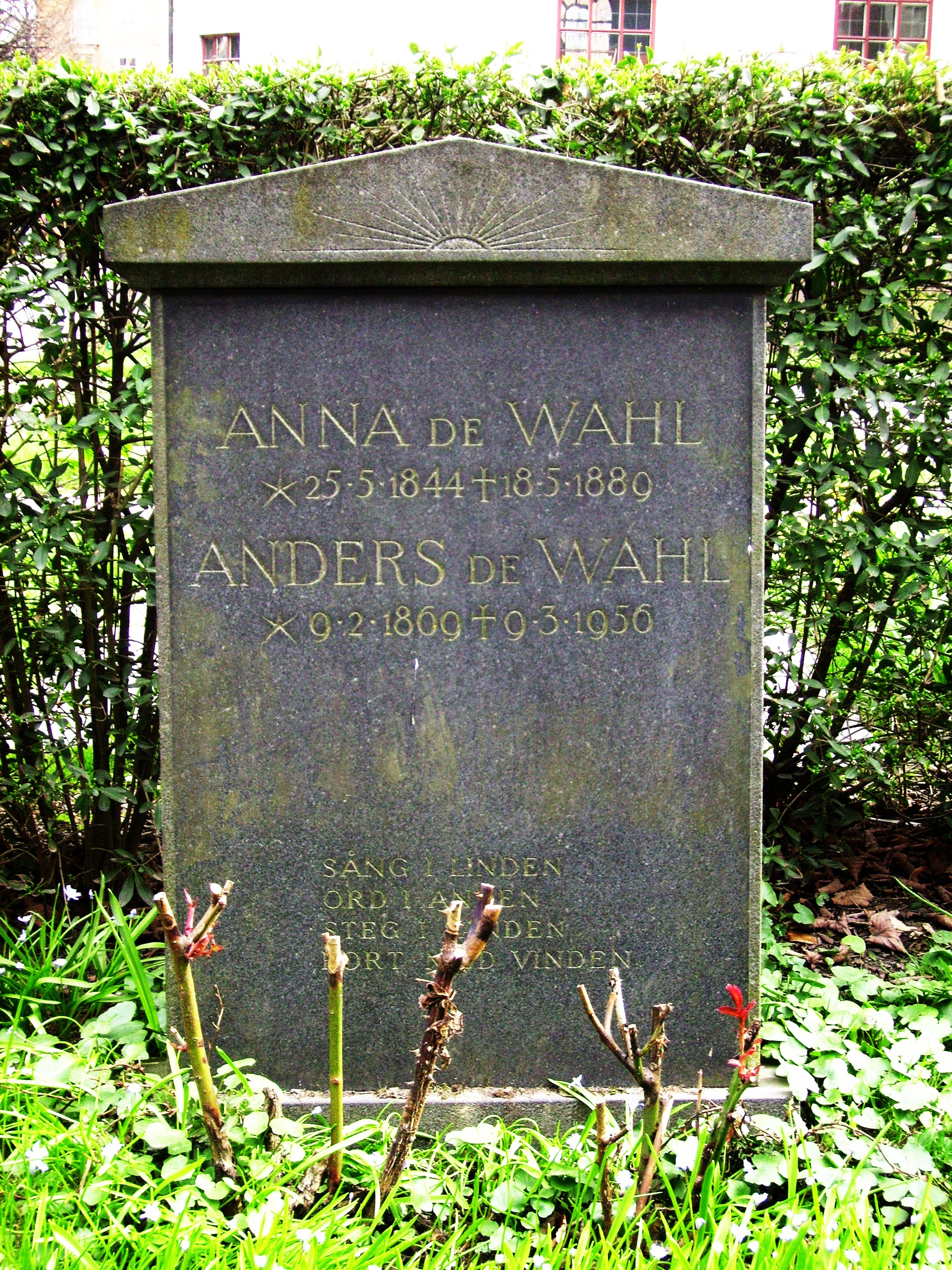 Picture of Anders de Wahls grave at Adolf Fredrik